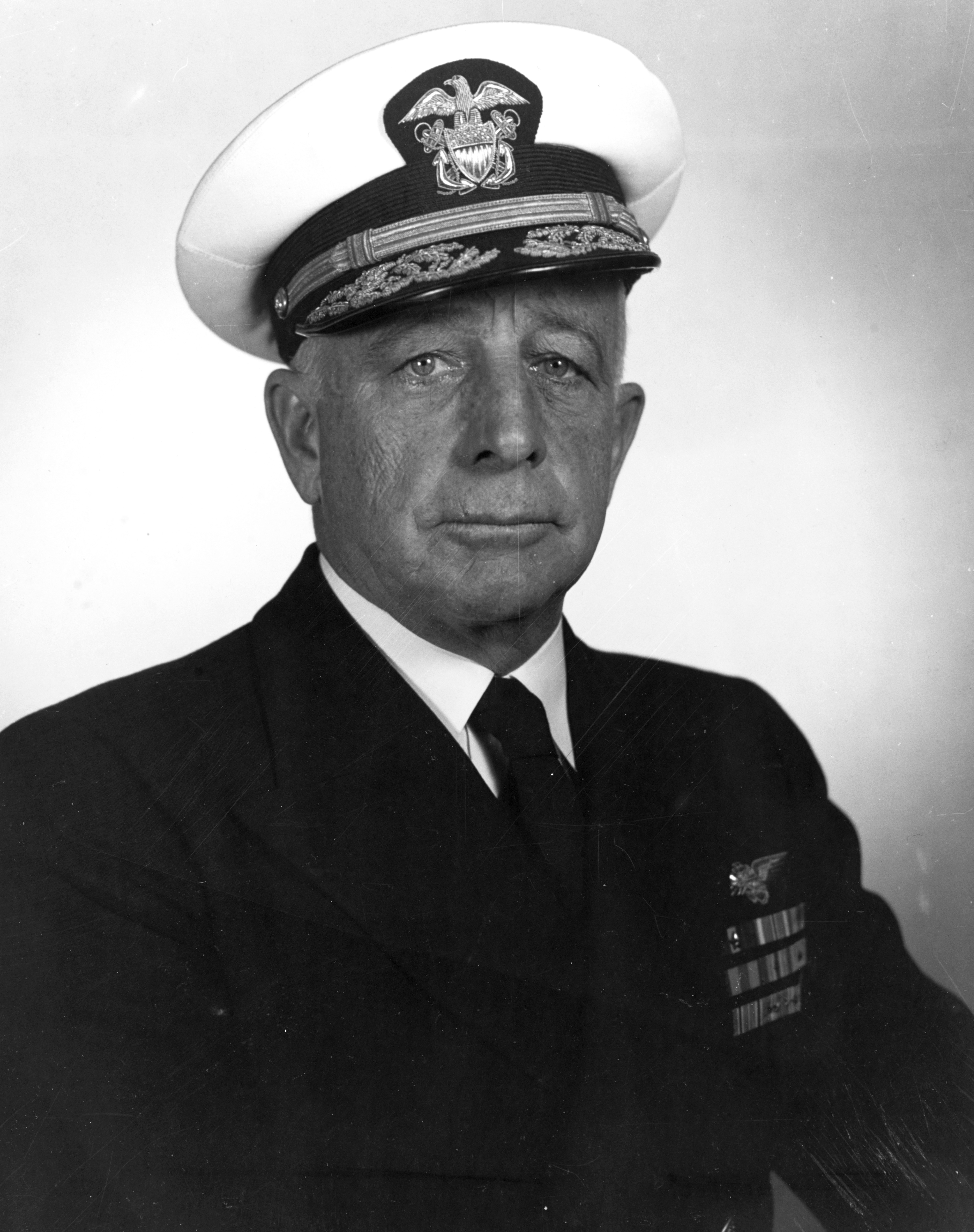 Caption read: "Photo # NH 97275 Vice Admiral Aubrey W. Fitch, 1946" Photo #: NH 97275 Vice Admiral Aubrey W. Fitch, USN Portrait photograph, dated 18 March 1946.